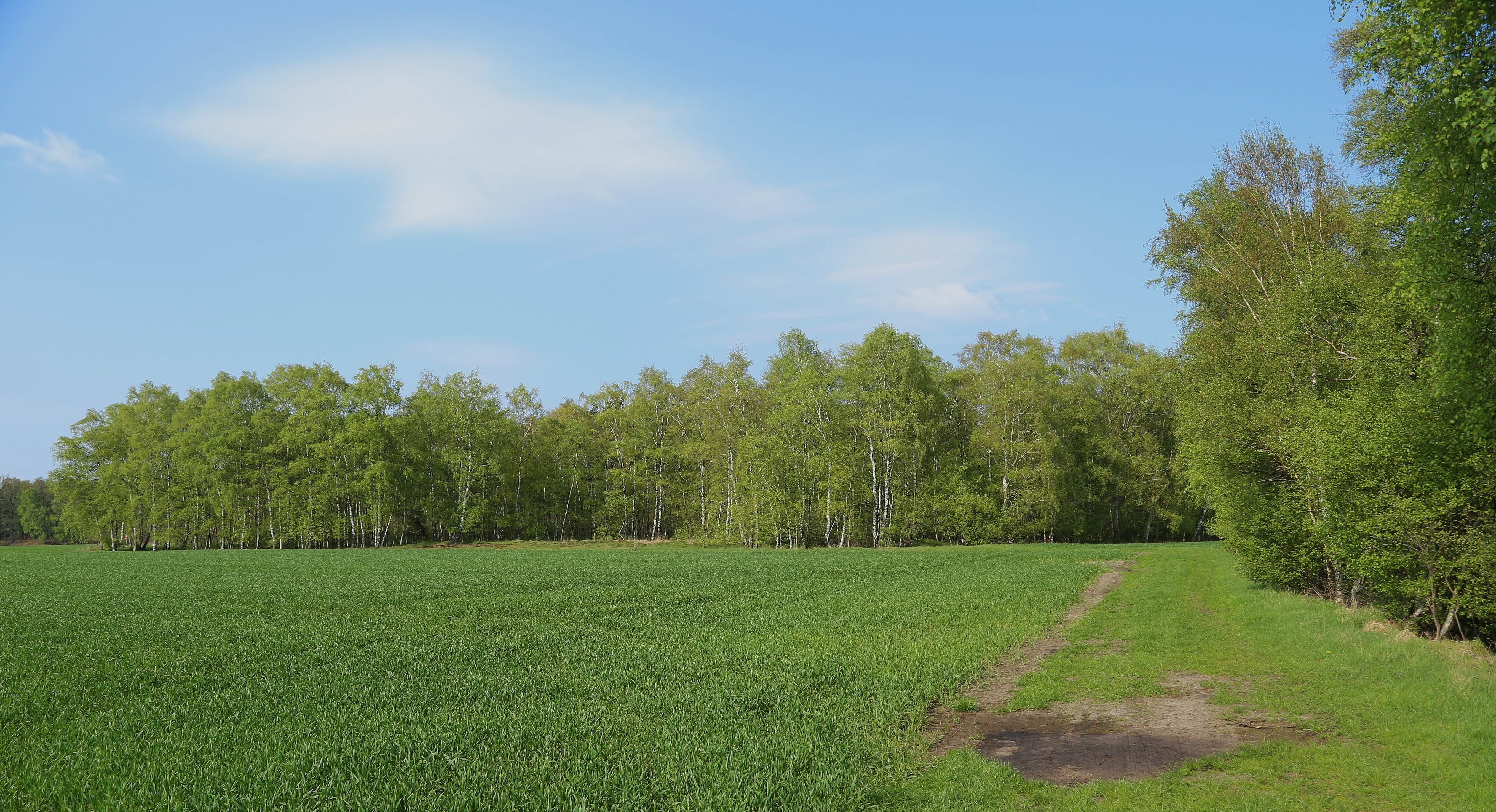 Nature reserve (Naturschutzgebiet) „Im Jiewitt“ in Neuenkirchen, Landkreis Osnabrück, Lower Saxony, Germany.